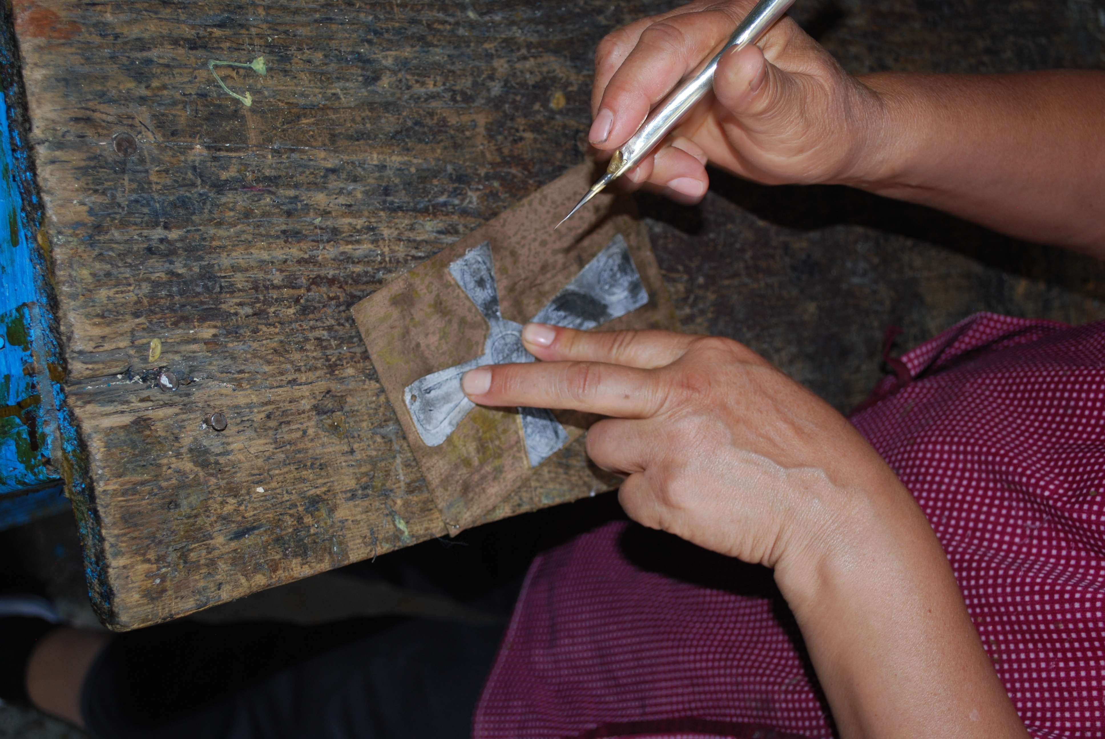 Tracing a cross in nickel silver in the Ruth Cortez Rodriguez workshop in San Miguel Allende, Guanajuato, Mexico